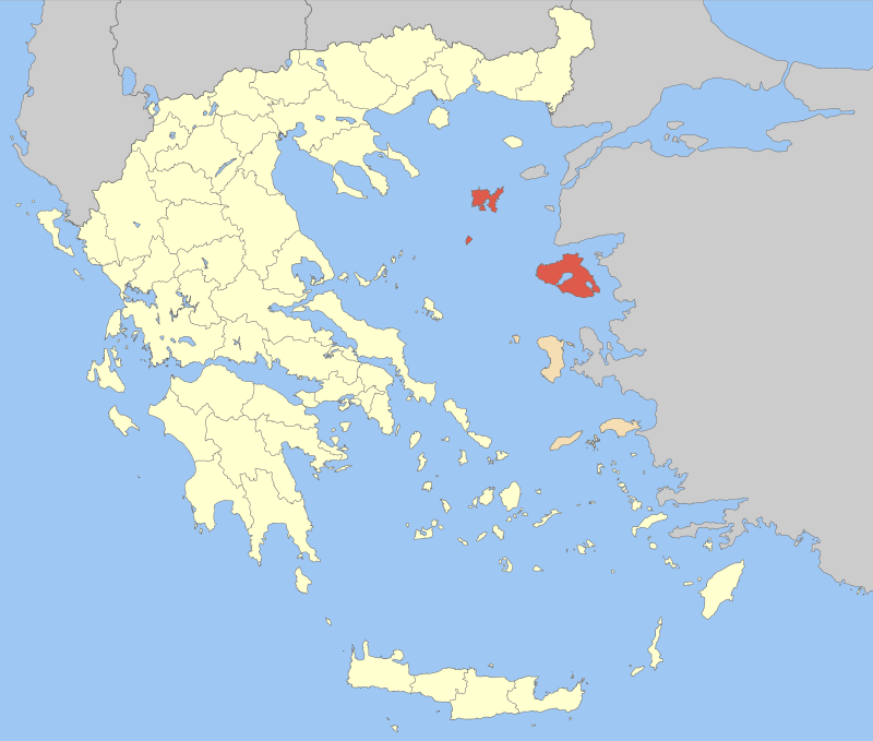 Locator map of Lesvos prefecture (Νομός Λέσβου) in Greece